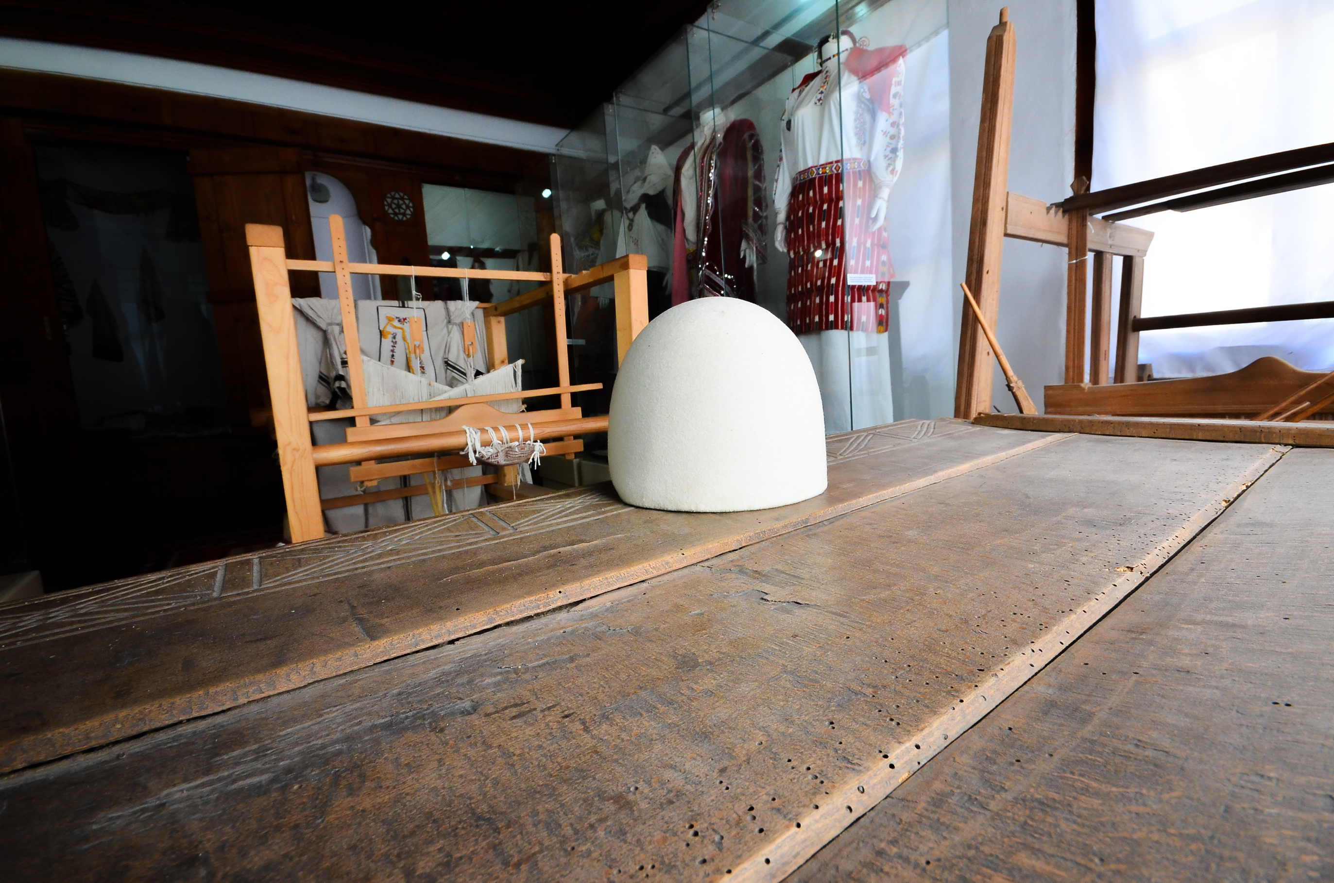 Plisi , at the Ethnographical Museum in Prishtina